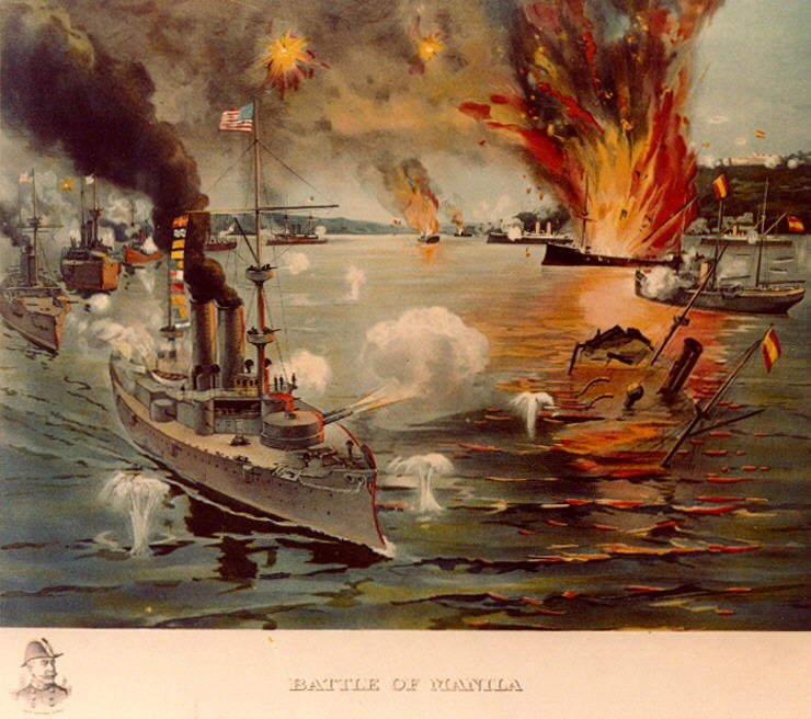 Contemporary colored print, showing USS Olympia in the left foreground, leading the U.S. Asiatic Squadron in destroying the Spanish fleet off Cavite. A vignette portrait of Rear Admiral George Dewey is featured in the lower left.